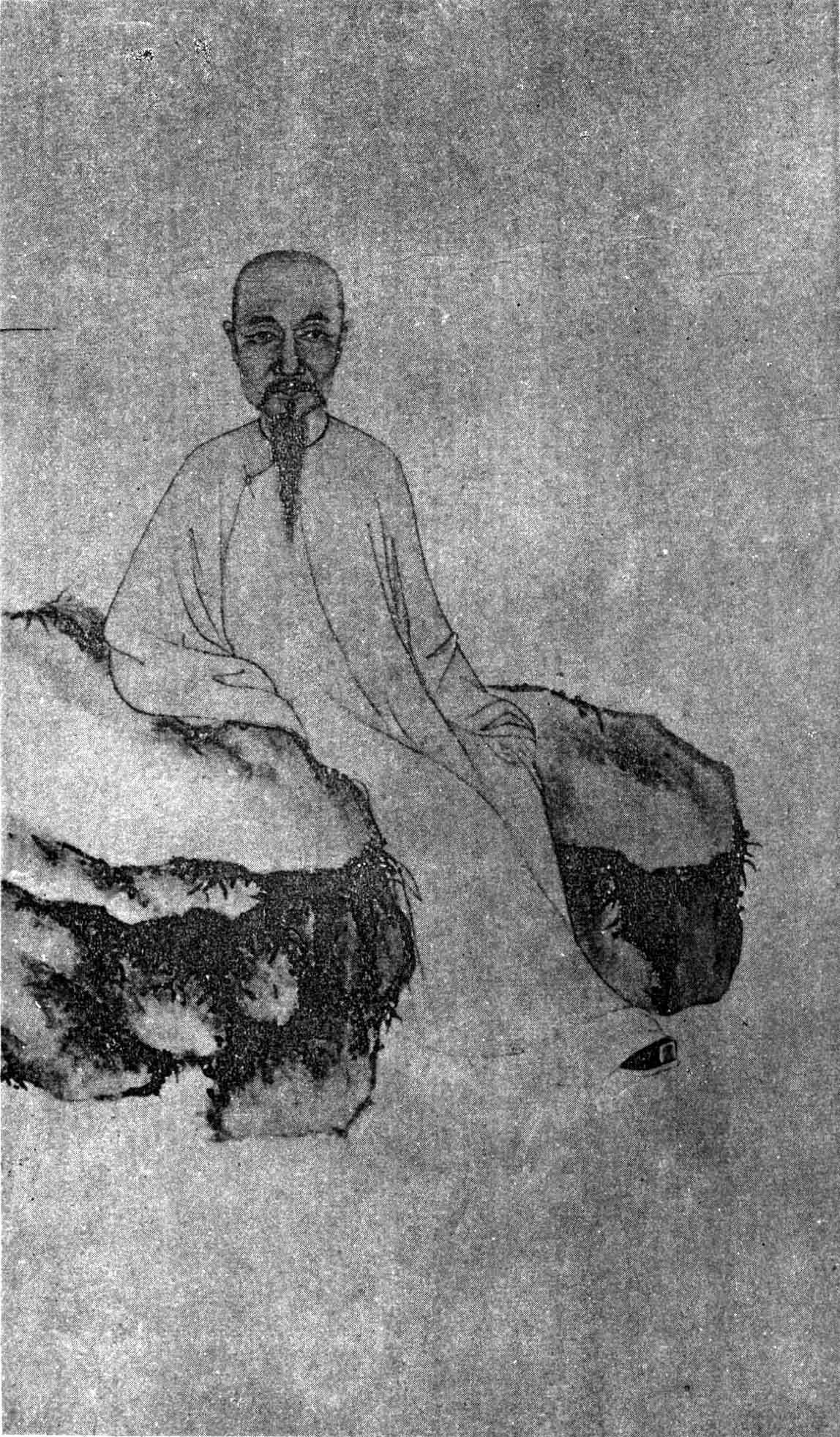 Sun Zhimi, poet and politician of the Qing Dynasty.